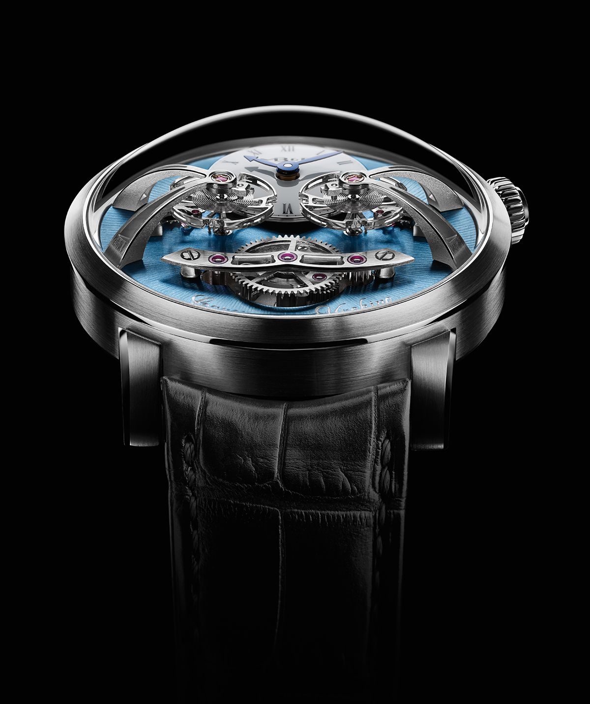 Legacy Machine No. 2 features Hours and minutes; two flying balance wheels and planetary differential driving a single gear train. For more information, please visit